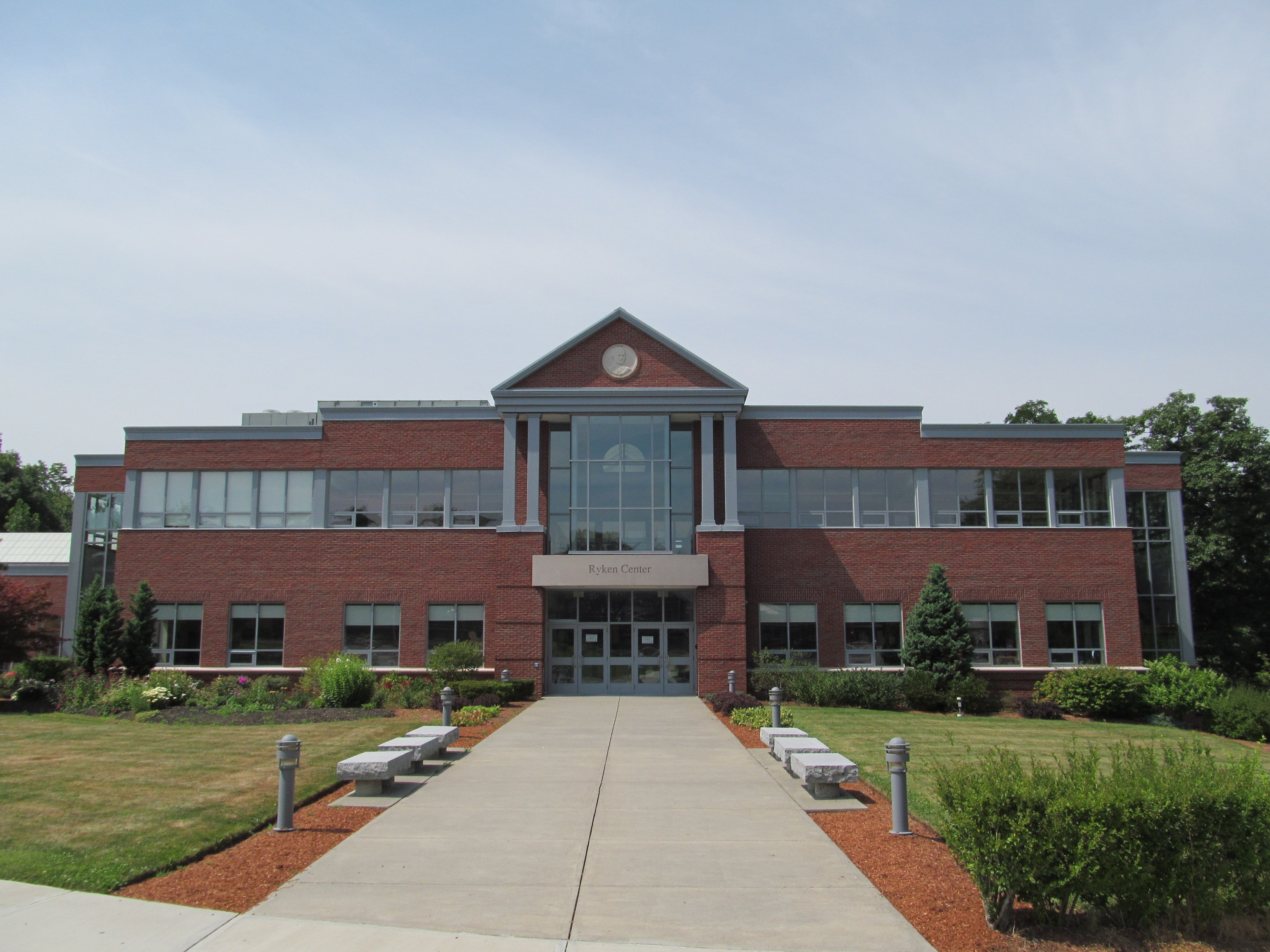 Ryken Center, St Johns High School, Shrewsbury Massachusetts